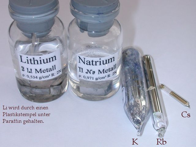 Photograph of a series of alkali metals: lithium, sodium, potassium, rubidium and caesium.